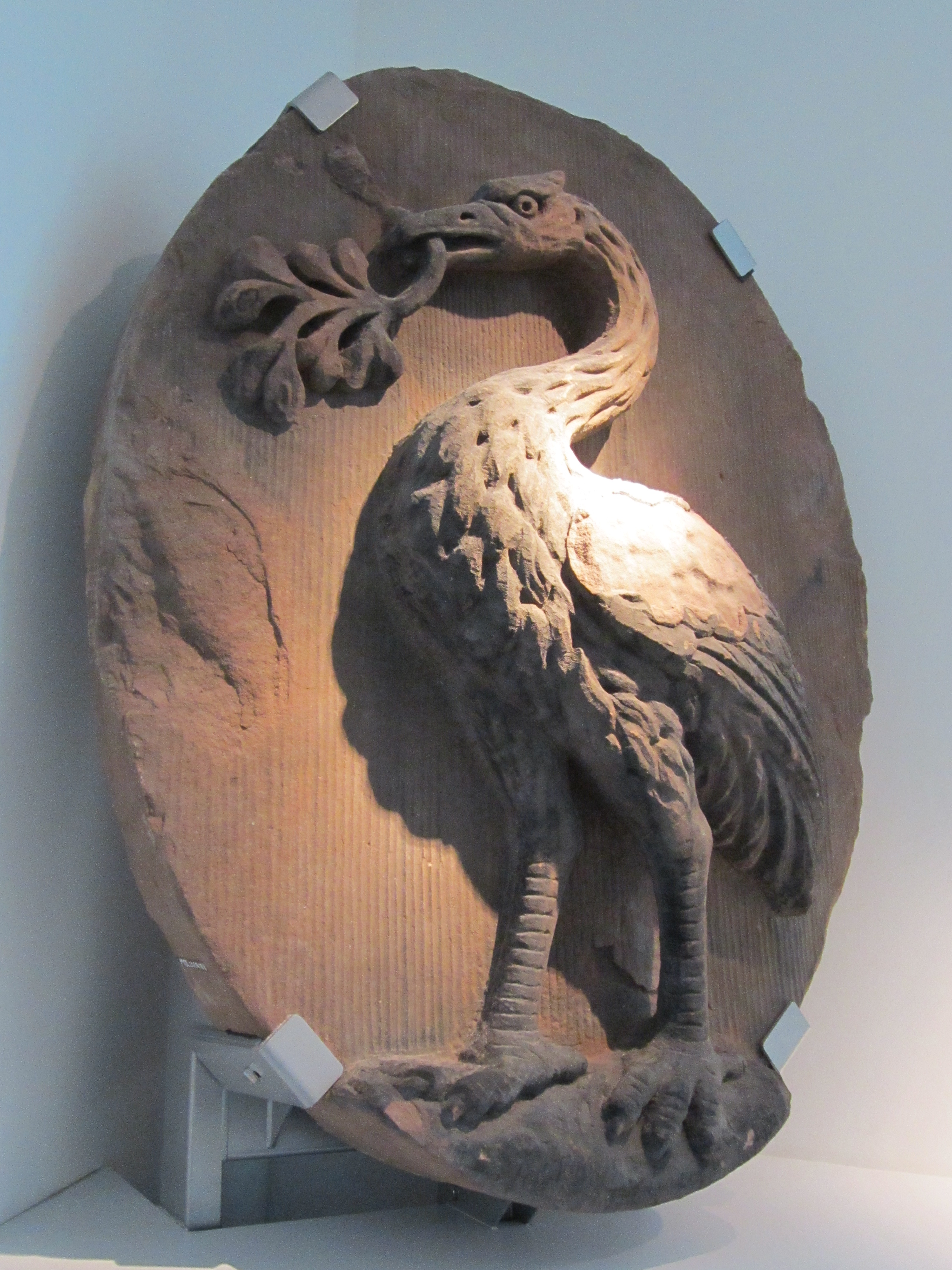 Liver bird from the Sailors' Home on display at the Museum of Liverpool, England.